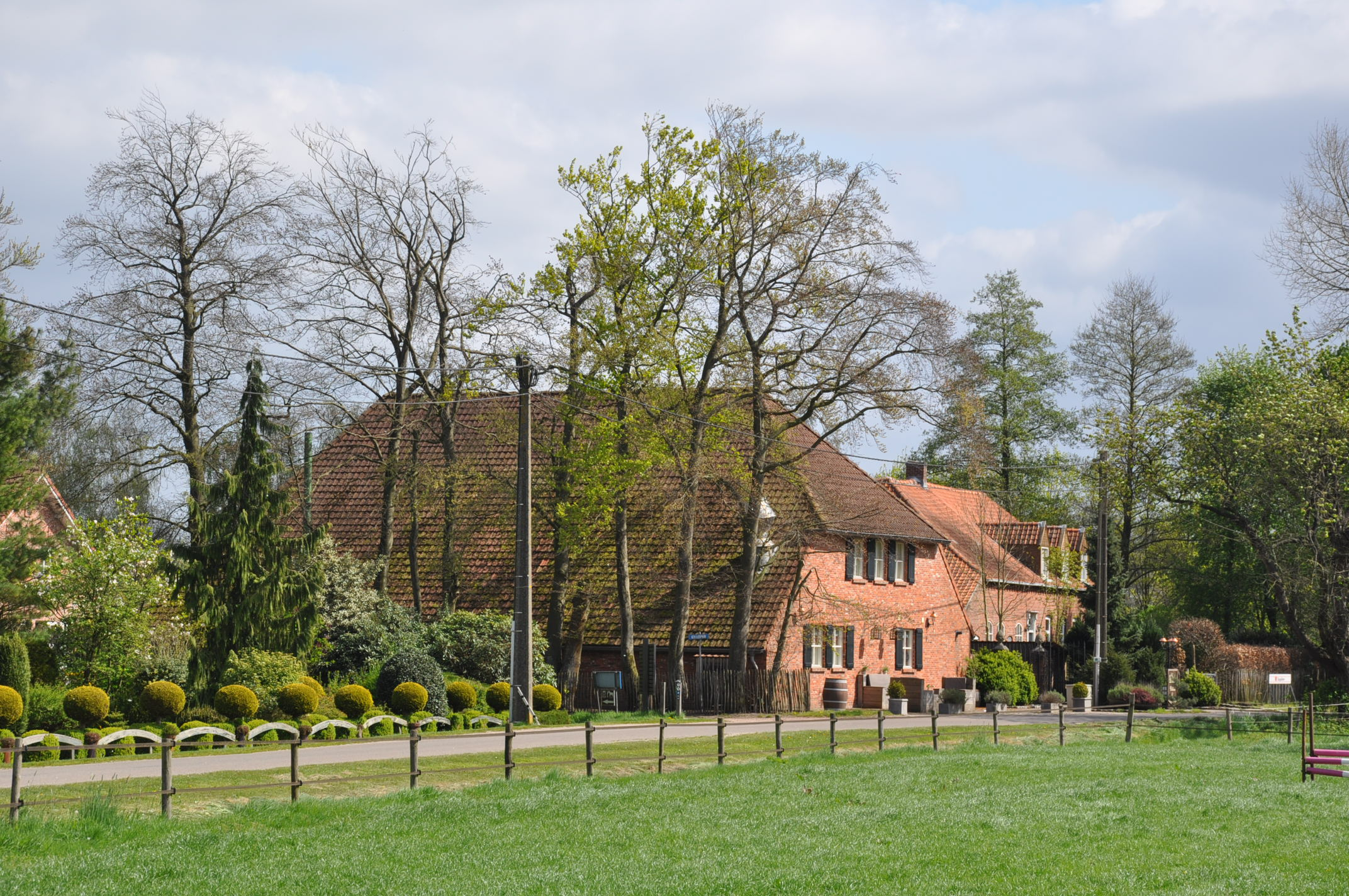 Farm in Castelré (municipality Baarle-Nassau, province North Brabant, Netherlands).